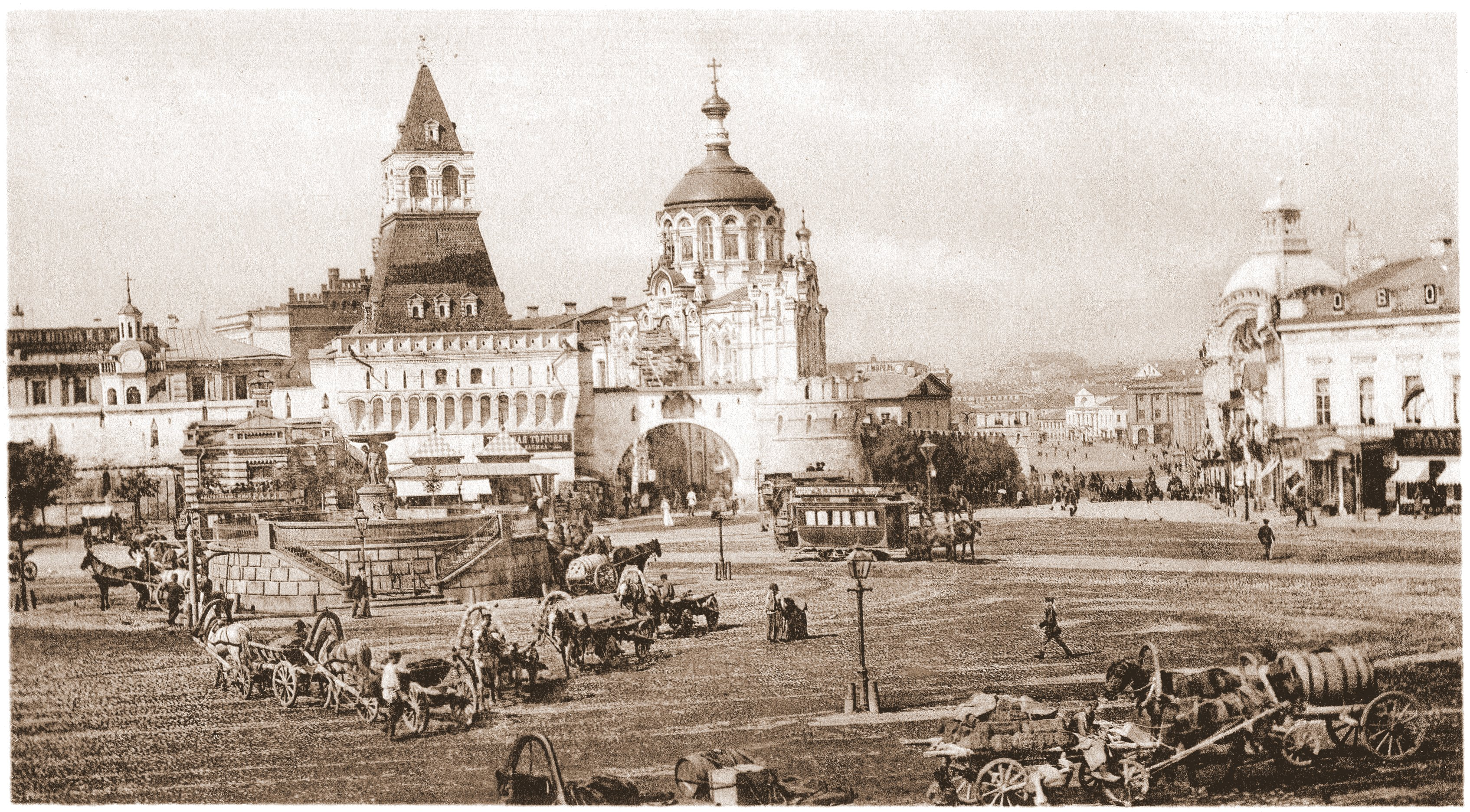 Loubianka square at 1880-1904 (Horsecar)